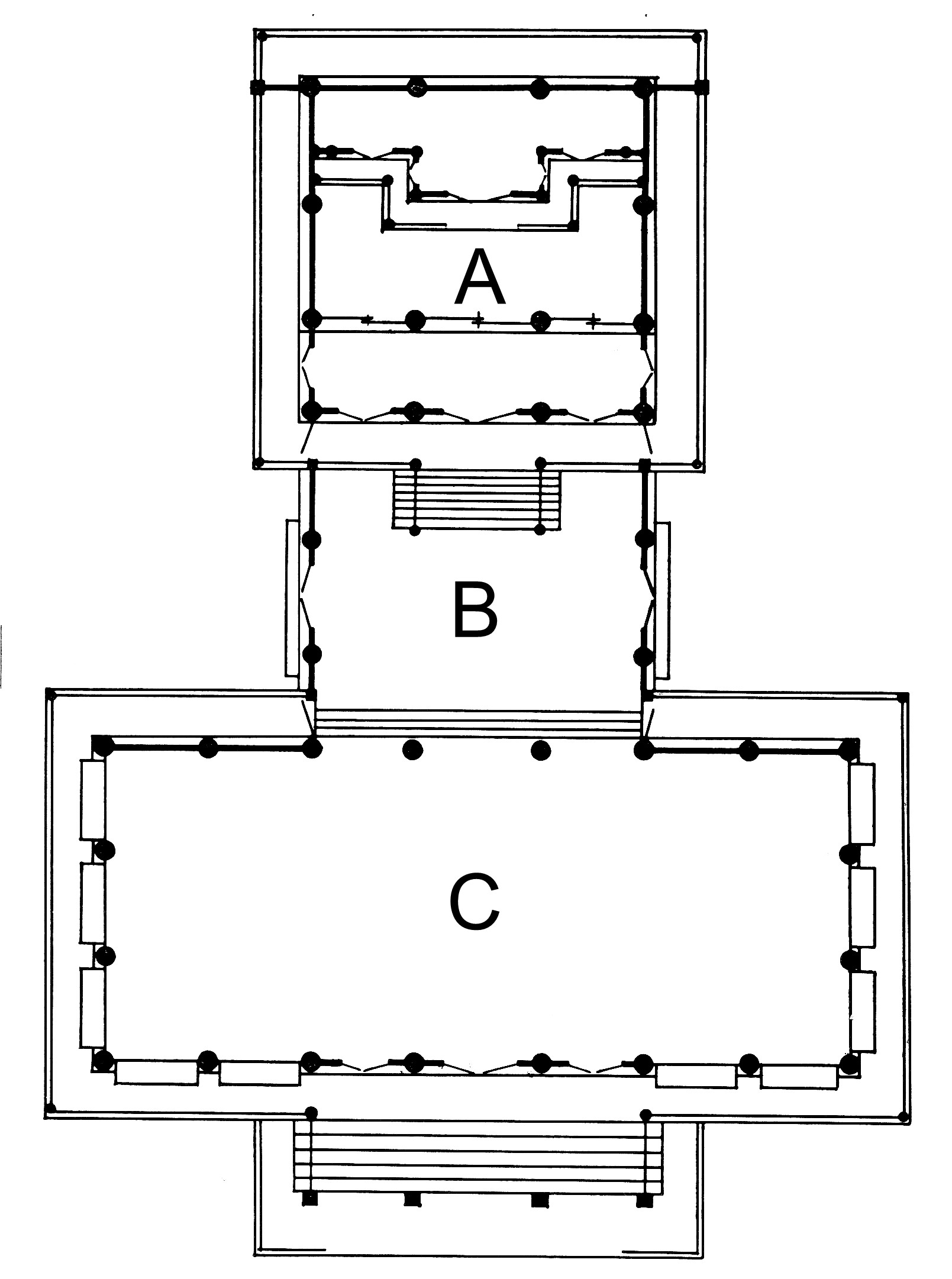 Layout of Ueno Toshogu